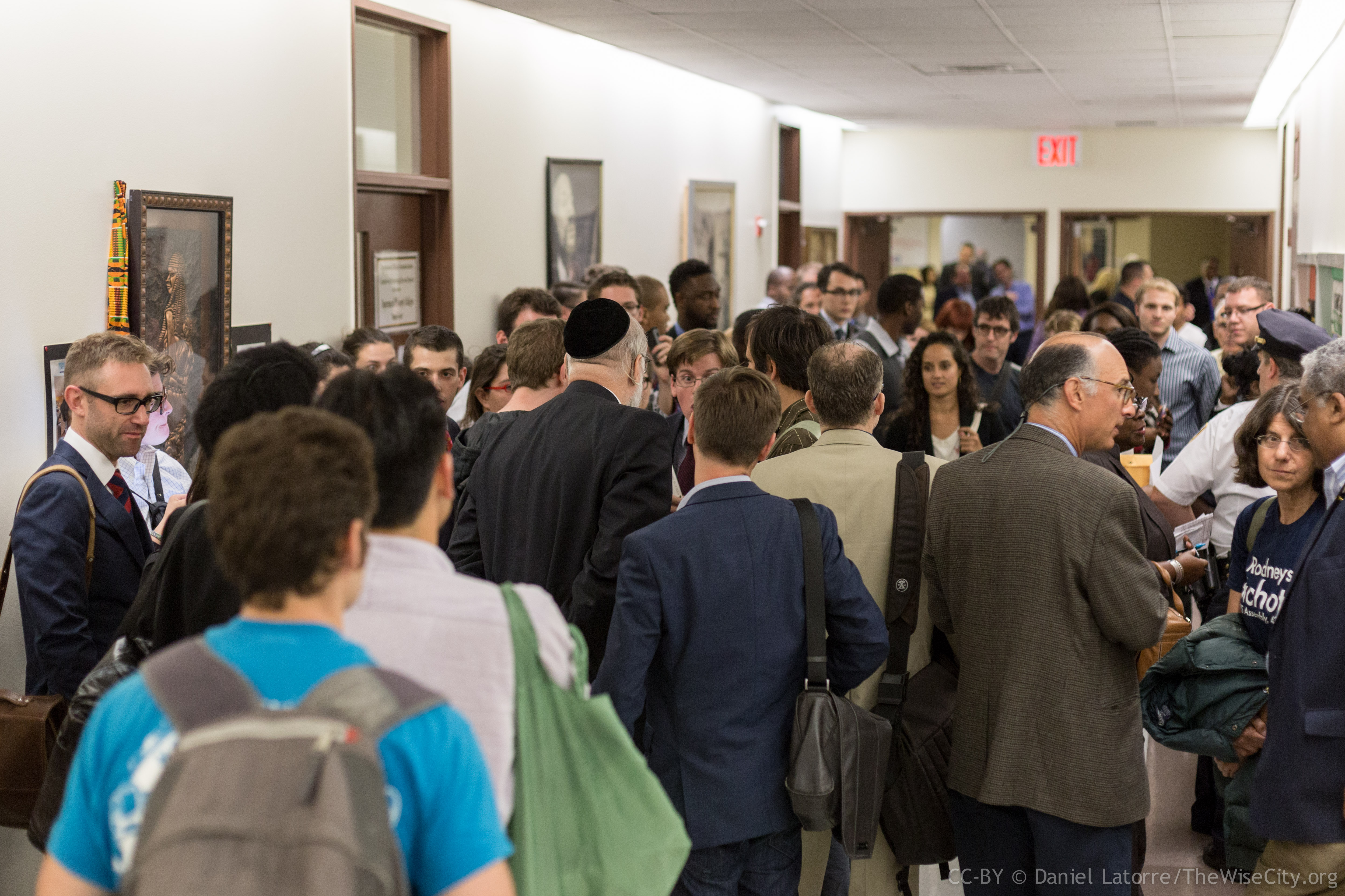 2014 Kings County Democratic County Committee - Protests to status quo leadership to make the entire process more transparent and participatory. The current process is a simulation of democracy but is actually closed and scripted in advance. As a result of the vocal protests at this meeting promises were made to meet twice instead of once, and additional promises were made to put all relevant information online which was the same goal from two years ago.